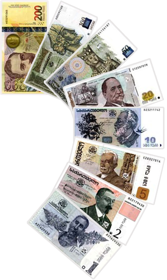 Various Lari bills.